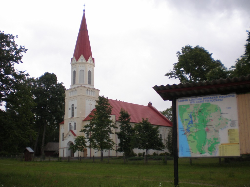 Church of Rucava